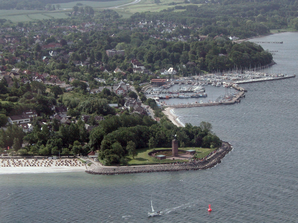 Aerial photo of Heikendorf, at the eastern shore of Kiel Fjord, Schleswig-Holstein, North Germany, with the submarine memorial Möltenort in the foreground.